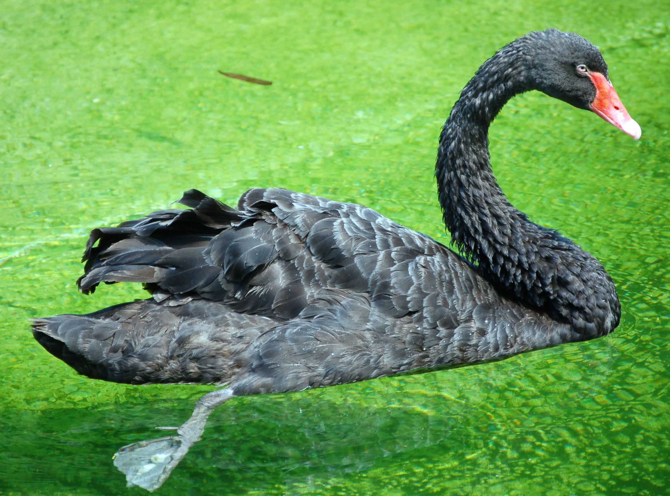 Black Swan